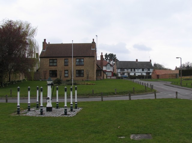 Part of the village green at Yaxley, Cambridgeshire (formerly Huntingdonshire). On the left is the village pump, installed in 1892. The timber-framed cottage in the background on the right is 88 Main Street, an 18th-century house that used to be the parish workhouse.